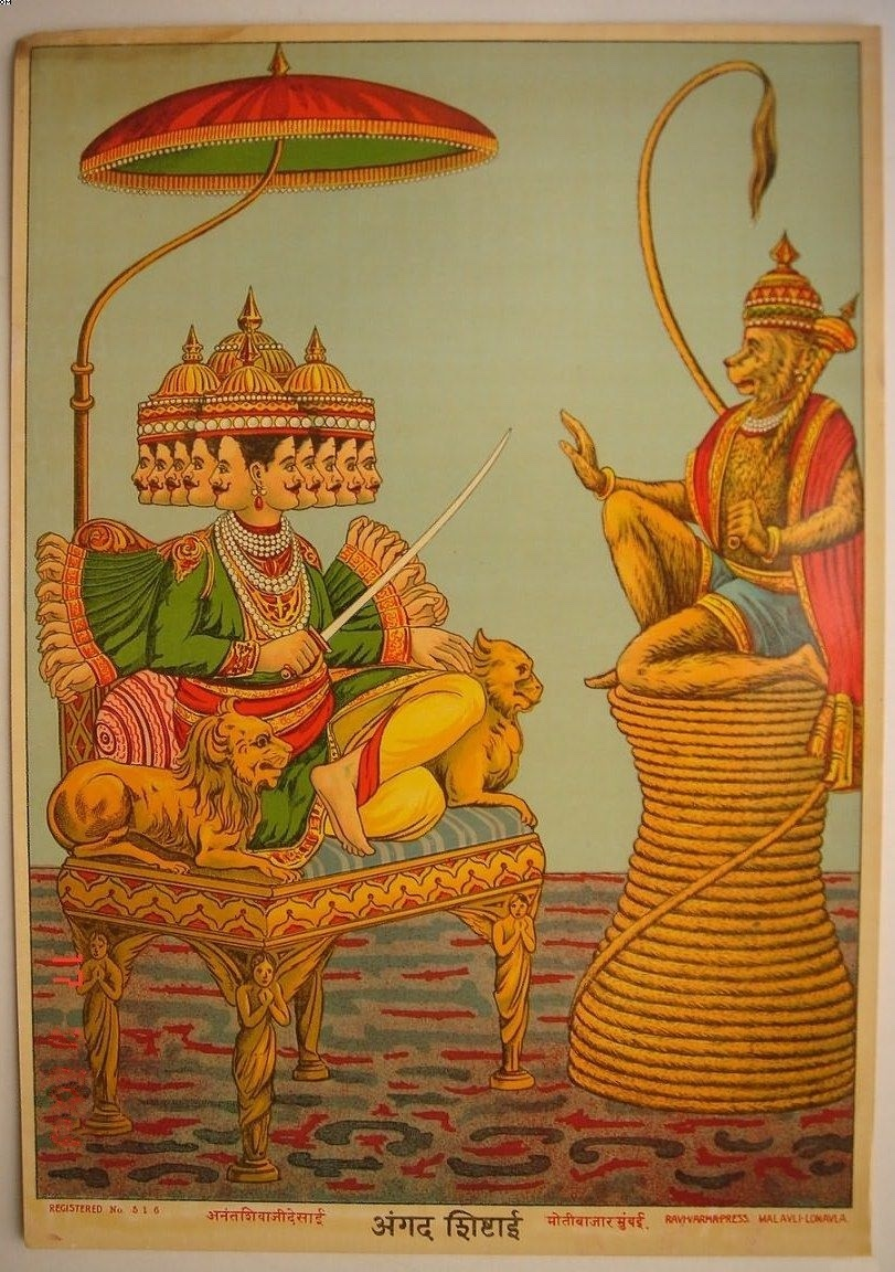 The monkey prince Angad is first sent to give diplomacy one last chance (Ravi Varma studio, 1910s)